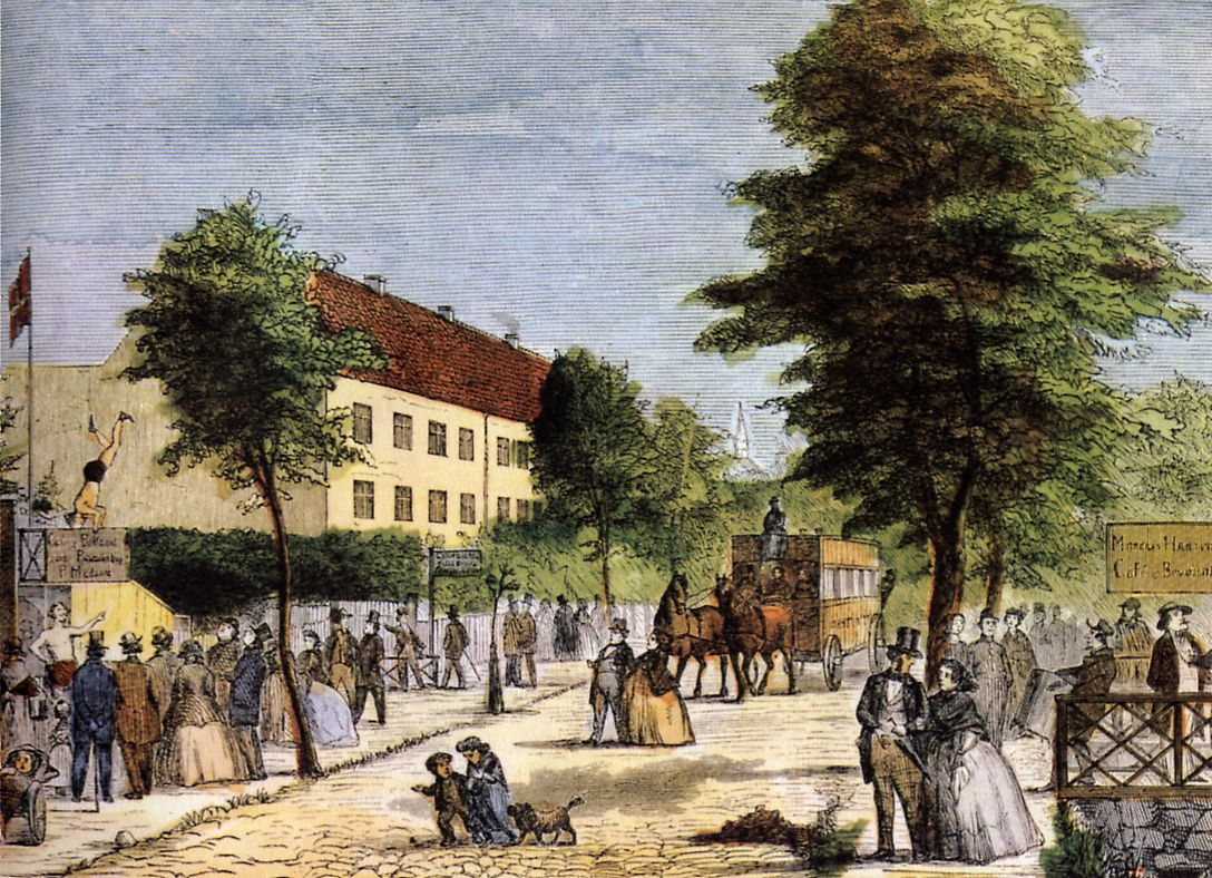 Indated image of Frederiksberg Allé in Copenhagen, Denmark